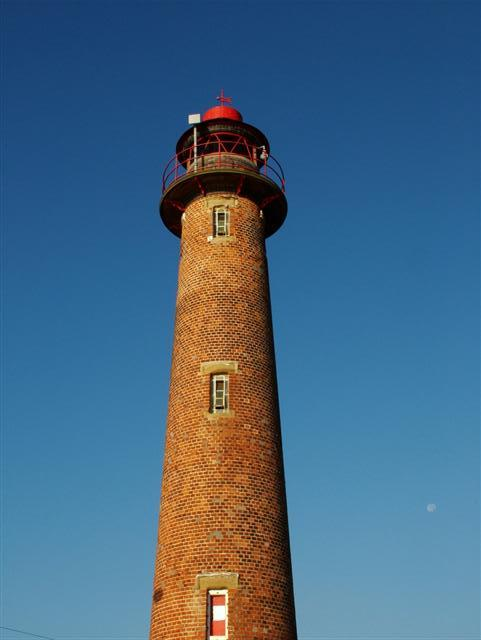 The Old Light House, Gorleston, near Great Yarmouth, Norfolk